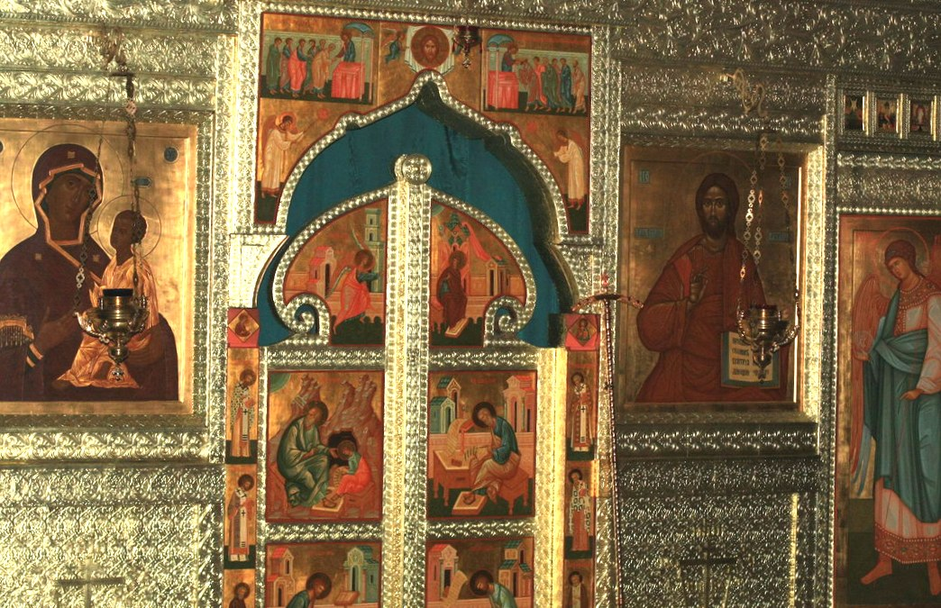 Feodorovsky Cathedral in Tsarskoye Selo. Lower church iconoclasis